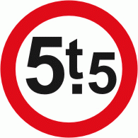 Diagram of road signs of Luxembourg